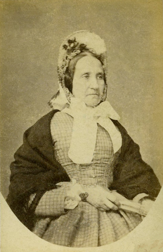 Maria Teotónia Augusta de Ornelas, Viscountess of Noronha (1805-?)